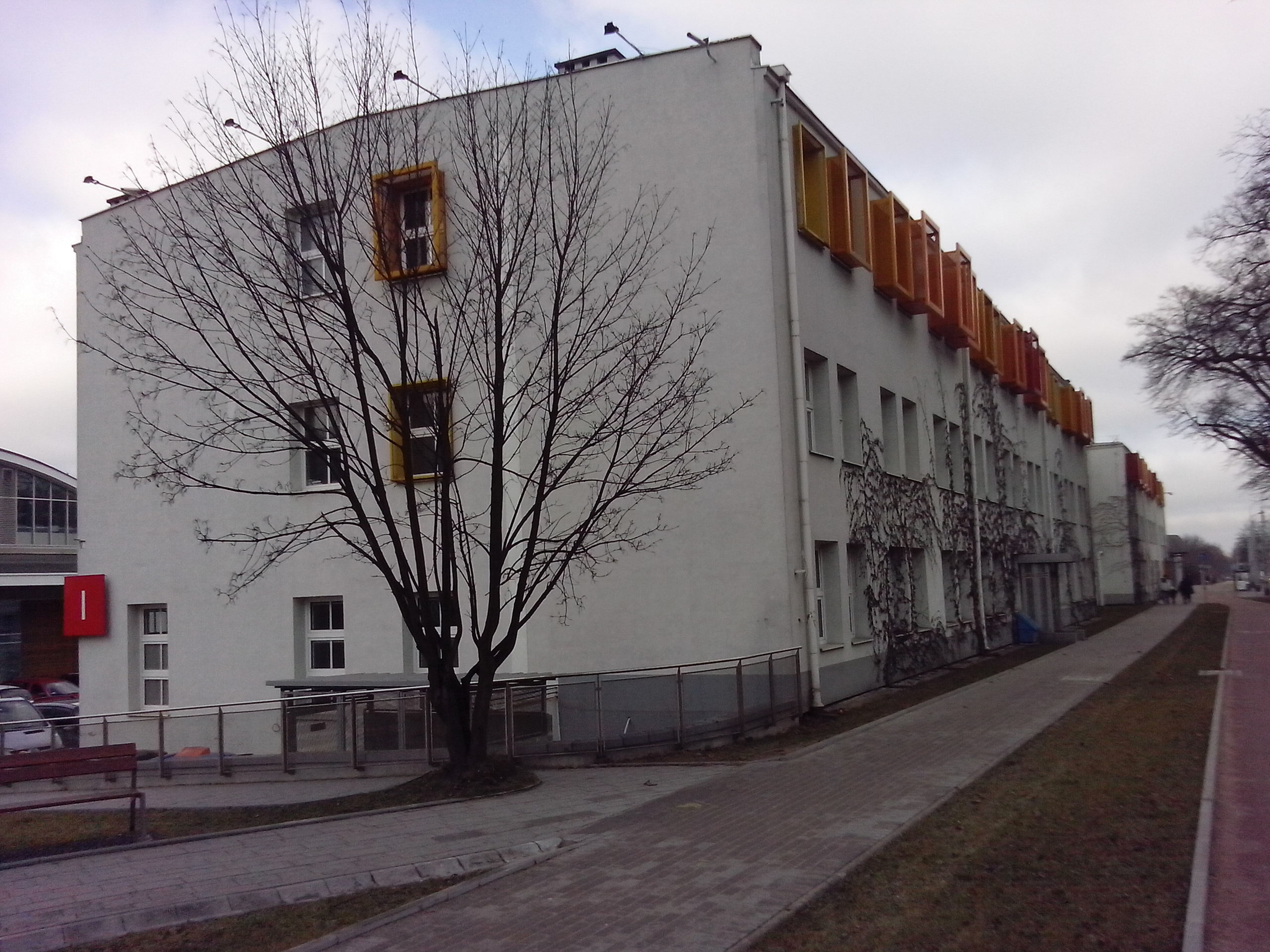 Pomeranian Science park I